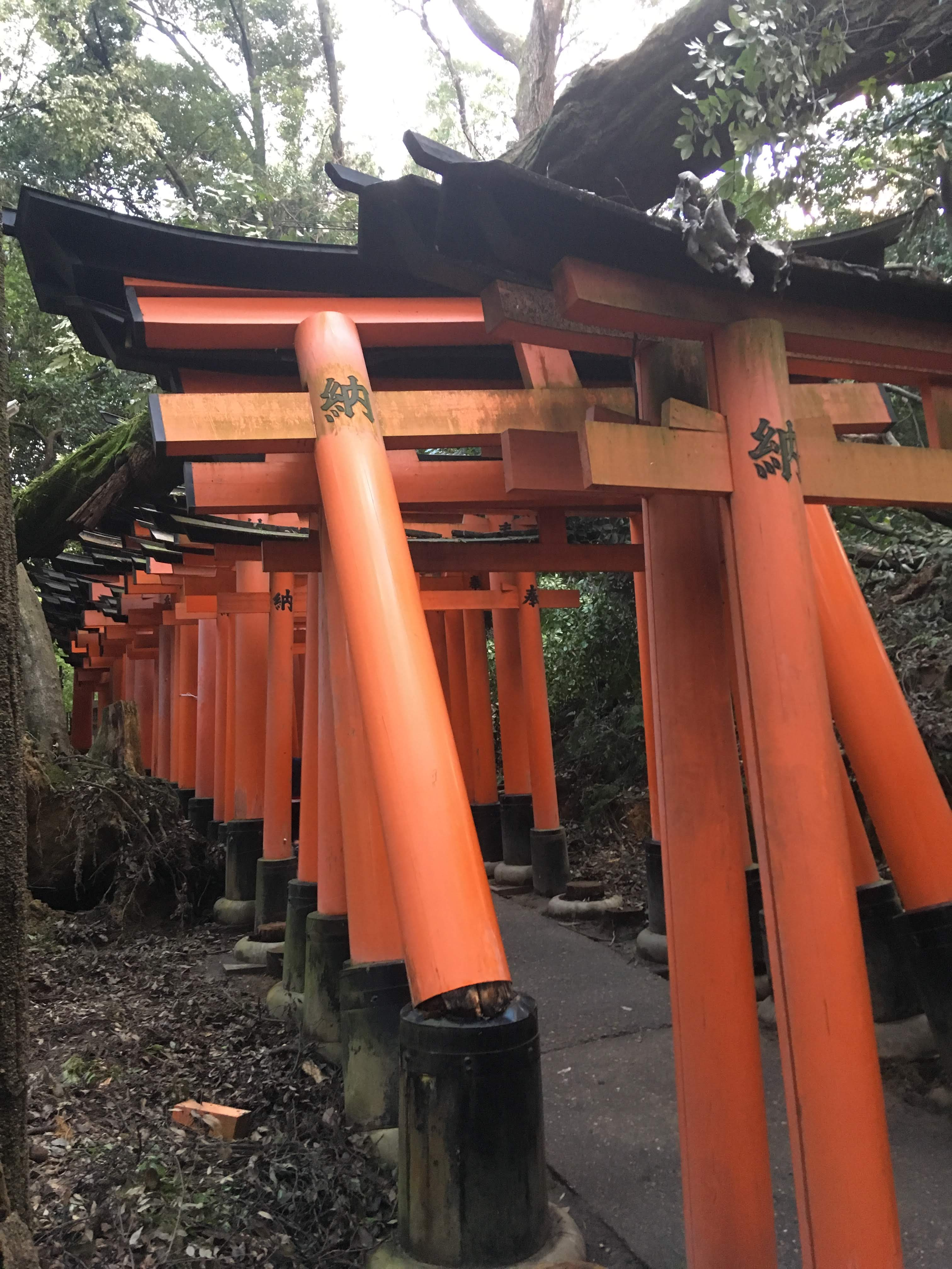 Some torrii of the Fushimi Inari-taisha shrine after Typhoon Jebi.